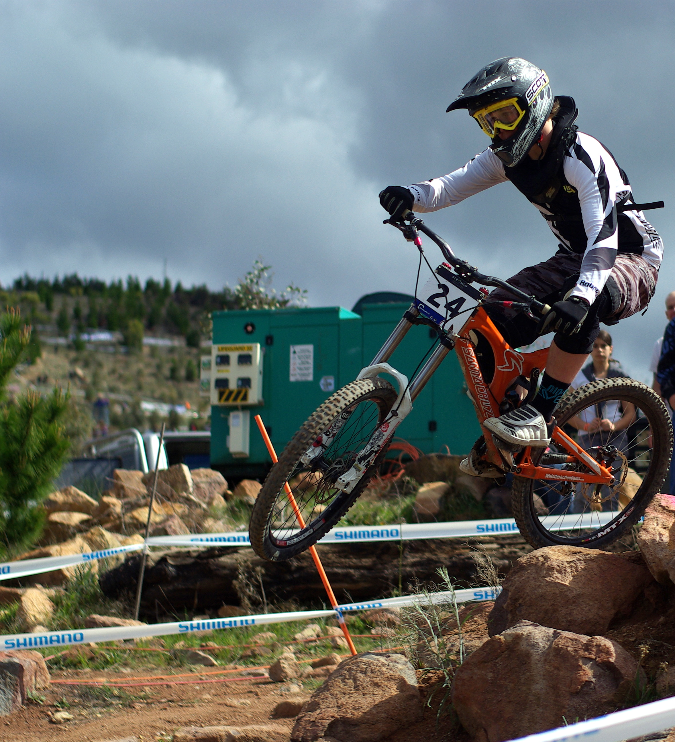 Cross-country mountain biking: Competitors in downhill events at the 2009 UCI Mountain Bike and Trials World Championships held at Mount Stromlo, near Canberra, Australia. George Brannigan, New Zealand (Men's junior)